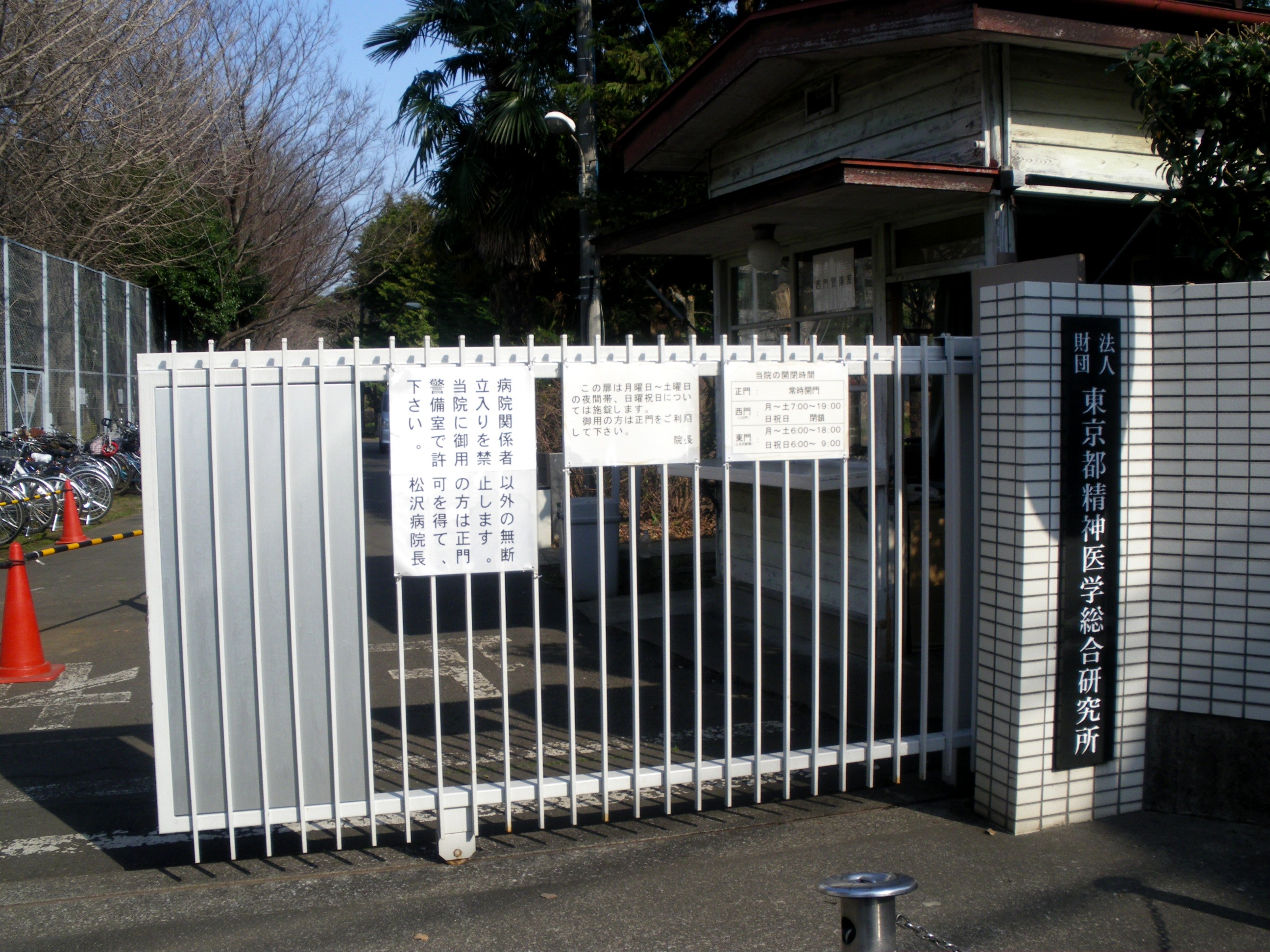 Tokyo Institute of Psychiatry(kamikitazawa,Setagaya,Tokyo)